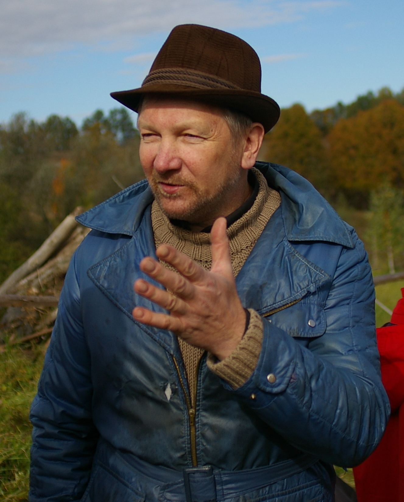 Filmmaking of Russian file “Любовь. Олимпиада. Рок-н-Ролл”.